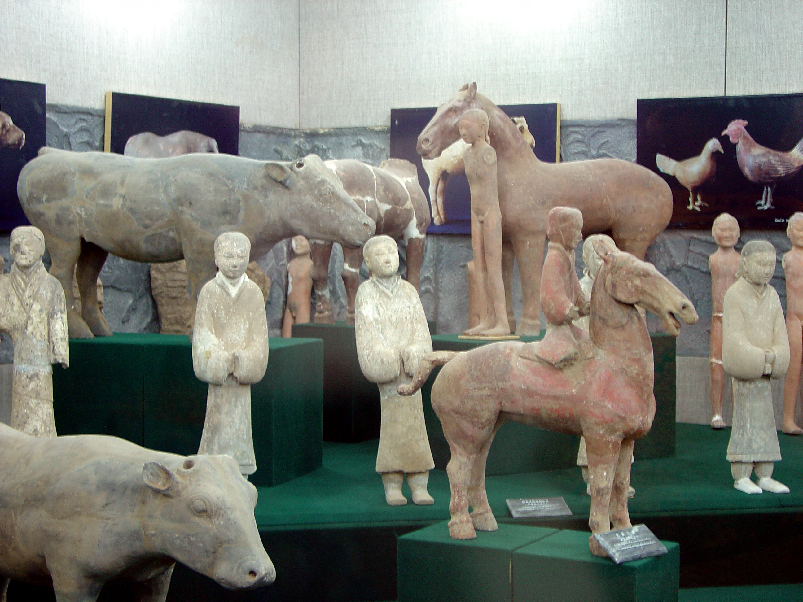 Tomb figures (mingqi). Han Dynasty, Yangling Museum, Xi'an These figures of animals and attendants were provided for service in the tomb owner's afterlife.